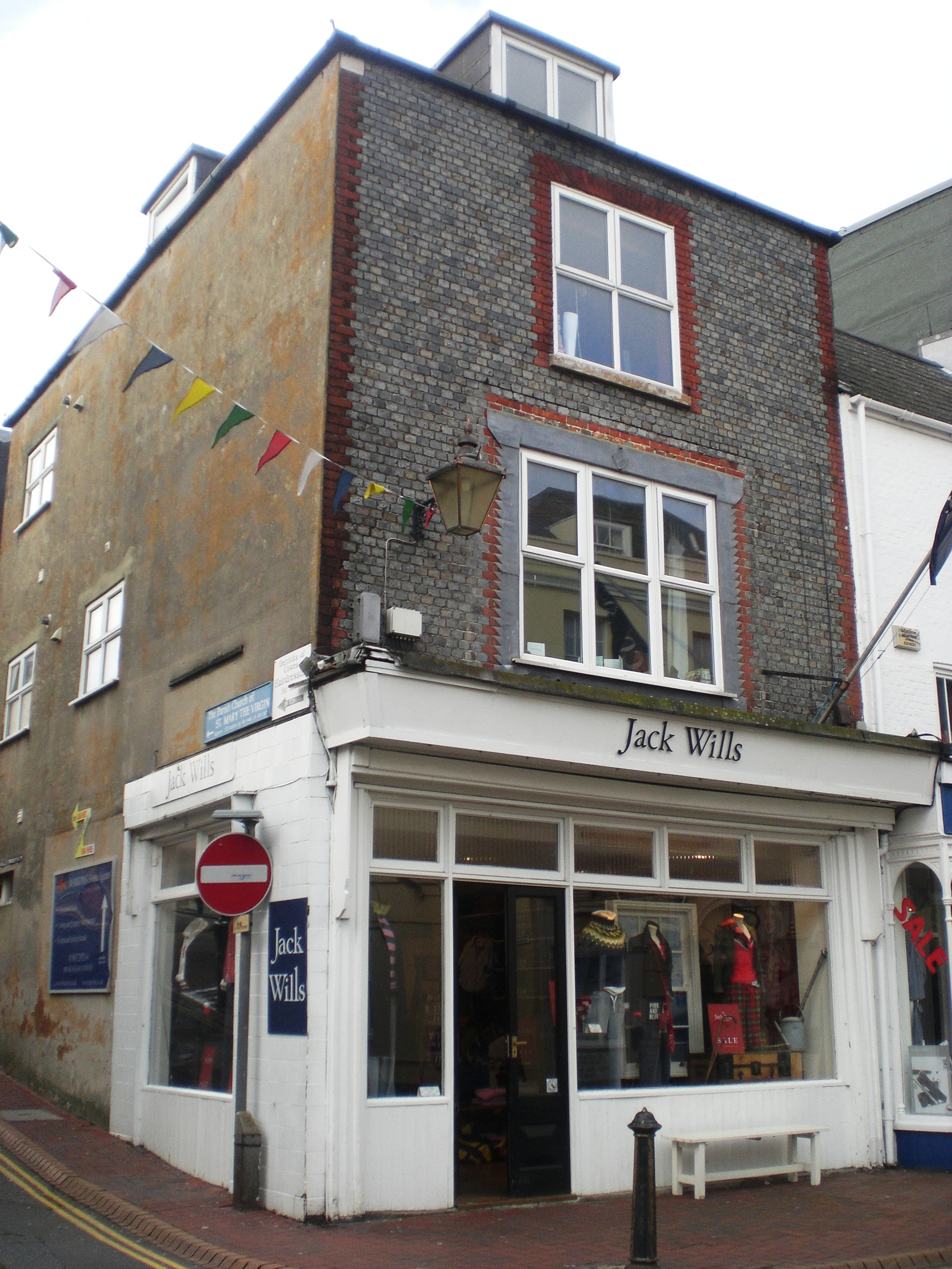 A branch of Jack Wills in Cowes on the Isle of Wight.